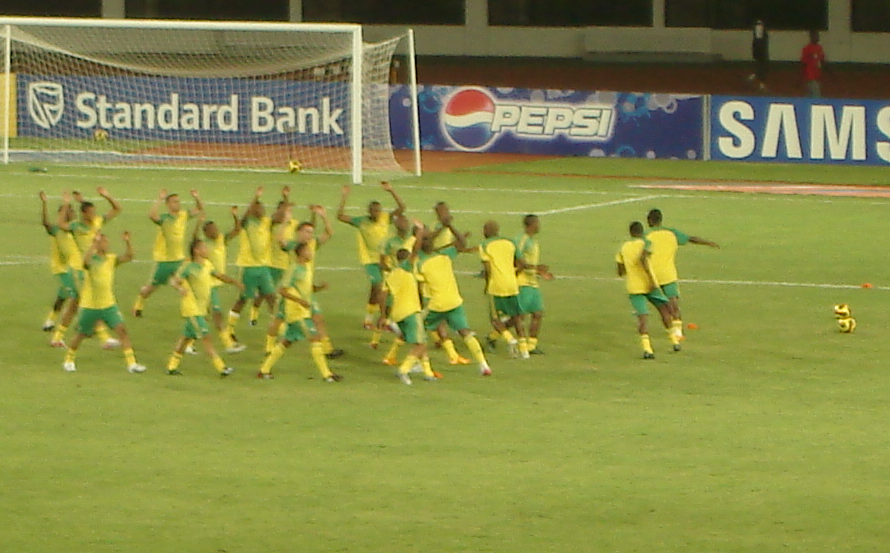 south african national soccer team, during warm-up, africa cup 2008, tamale ghana